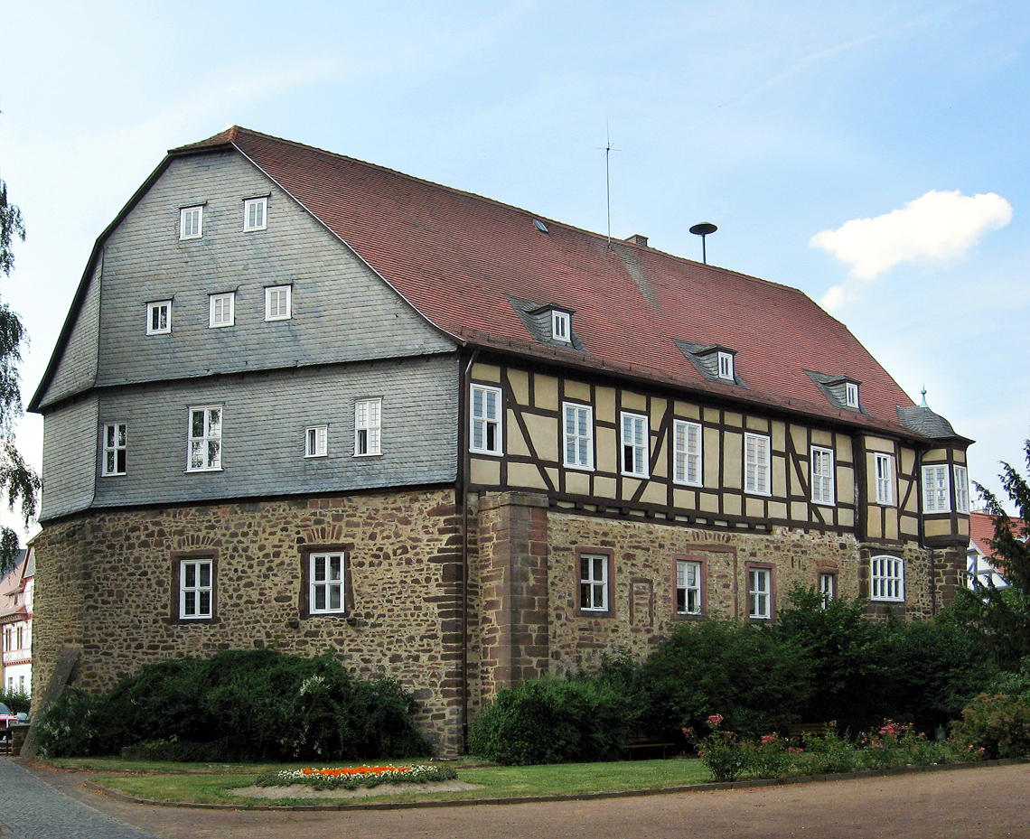 The Dörnbergsches castle is the town hall of Neustadt. Its build in 1489, an used as a town hall since 1952. (backside)